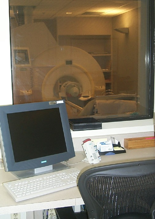 photographed by staff at the Krasnow Institute in September 2006. The Institute sanctions it 's on Wikipedia and there are no copyright restrictions to prevent using it. Jswiki 20:54, 15 December 2006 (UTC)Jim Olds, Director